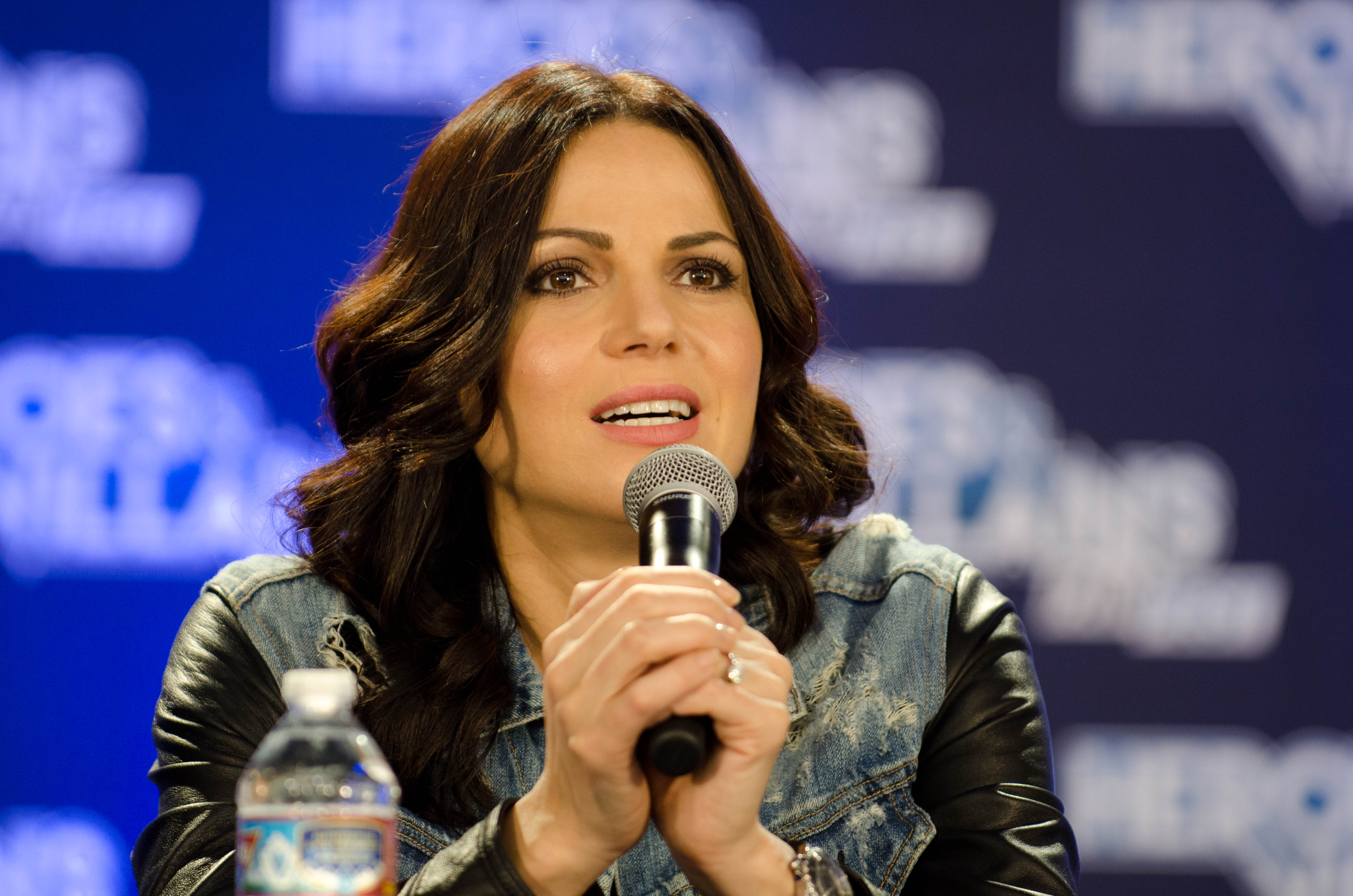 2015-11-22 Once Upon A Time: Lana Parrilla